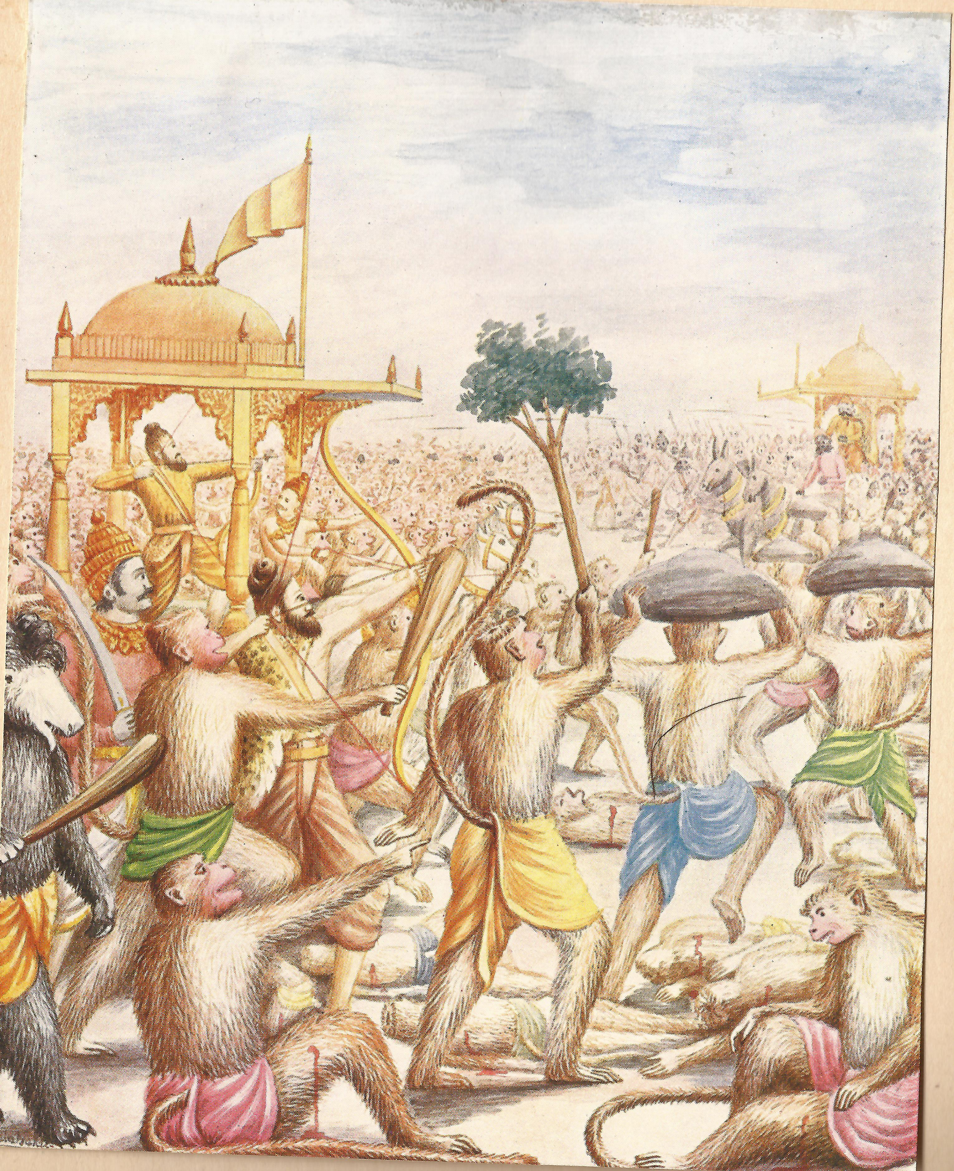 Loosing all generals, nearest kith and kin, Rawana finally decided to die or win and entered the battle field. That was battle of the millennium. Ravana was considered the greatest warrior of all times, a boon he had a received by propitiating Shiva. But Rama had a heavenly weapon which was handed over by sage Agastya with which he finally attacked Ravana and killed him.